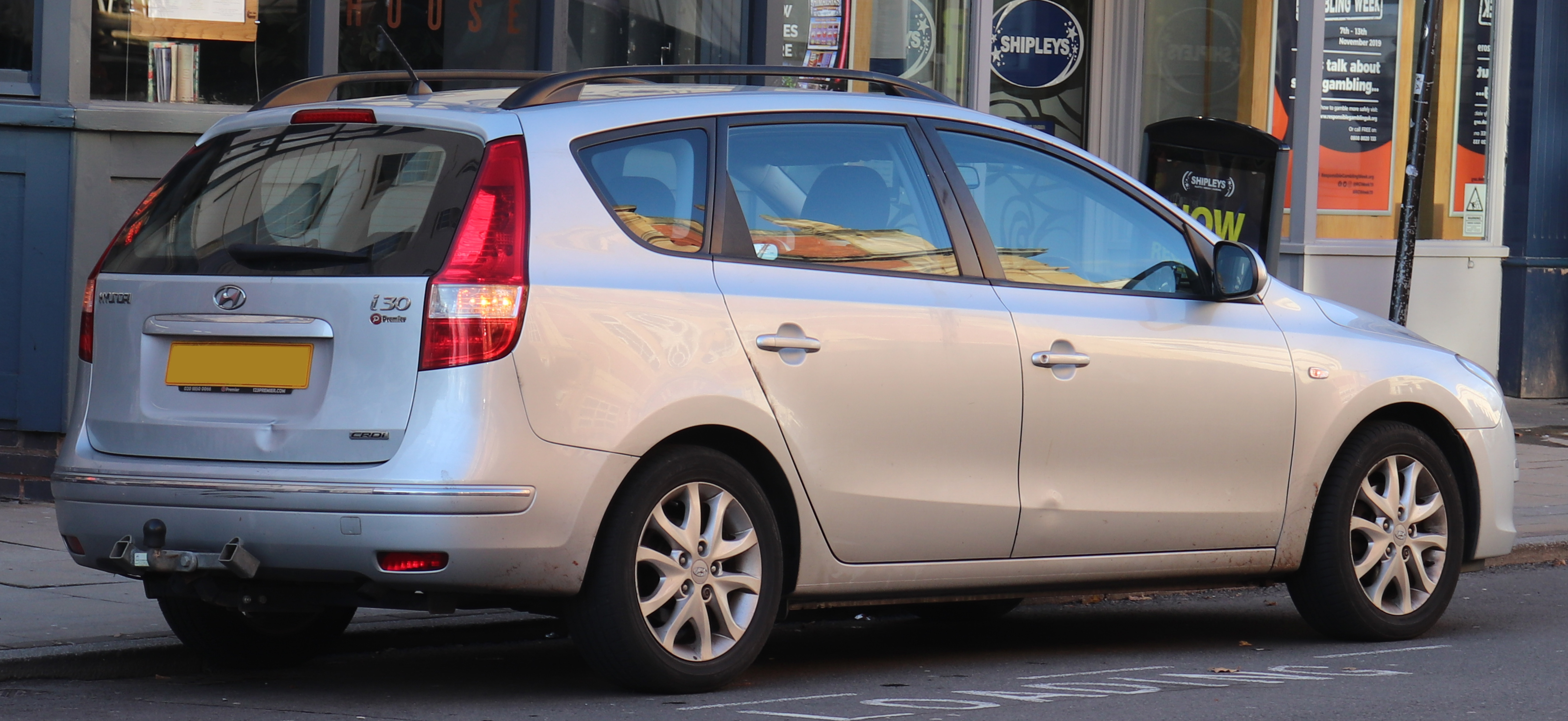 2010 Hyundai i30 Comfort CRDi Estate 1.6 Rear Taken in Leamington Spa